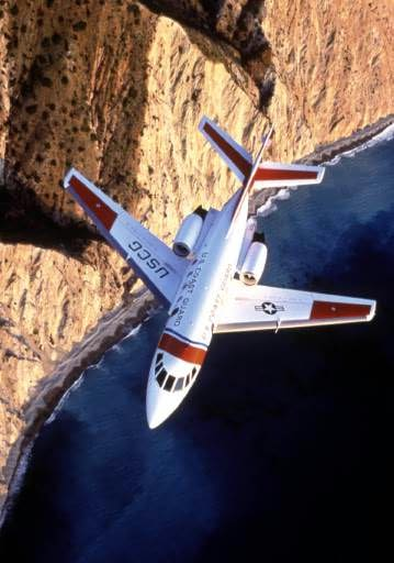 A USCG HU-25 Guardian (Dassault Falcon 20) of the US Coast Guard, photographed in flight